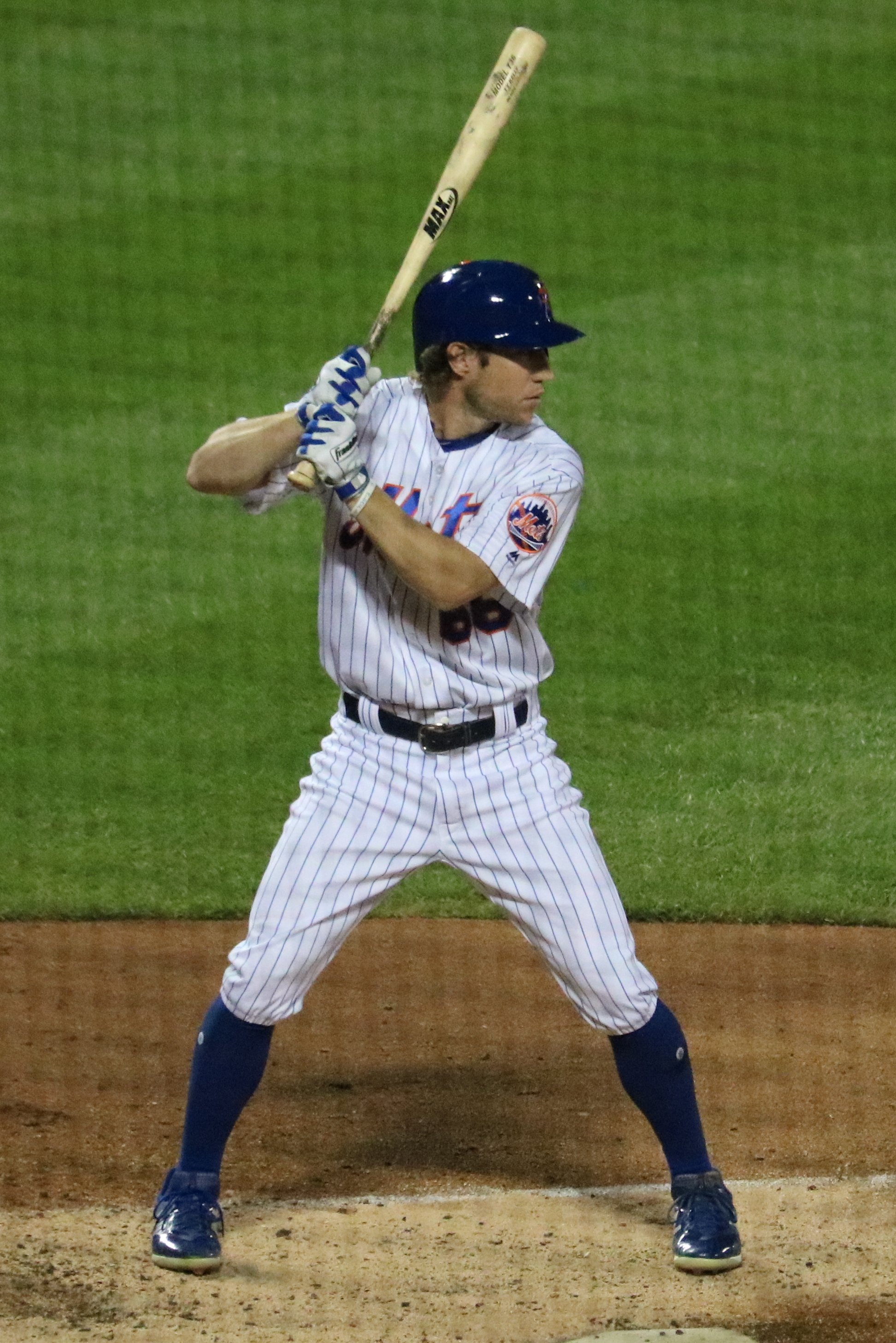 Ty Kelly batting on July 13, 2018